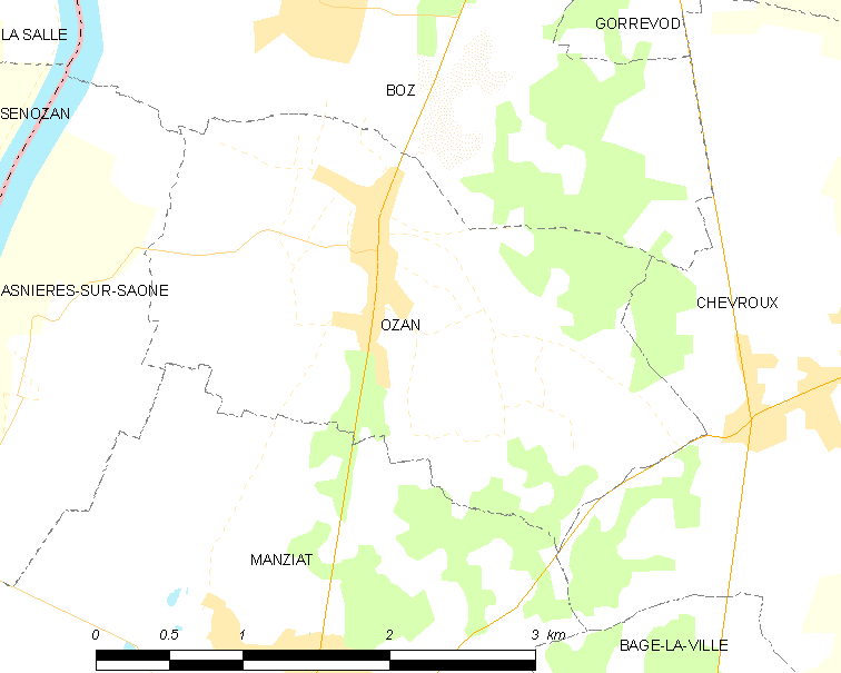 Map of French commune: Ozan Map commune FR insee code 01284.png